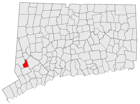 Locator map for Bethel, Connecticut